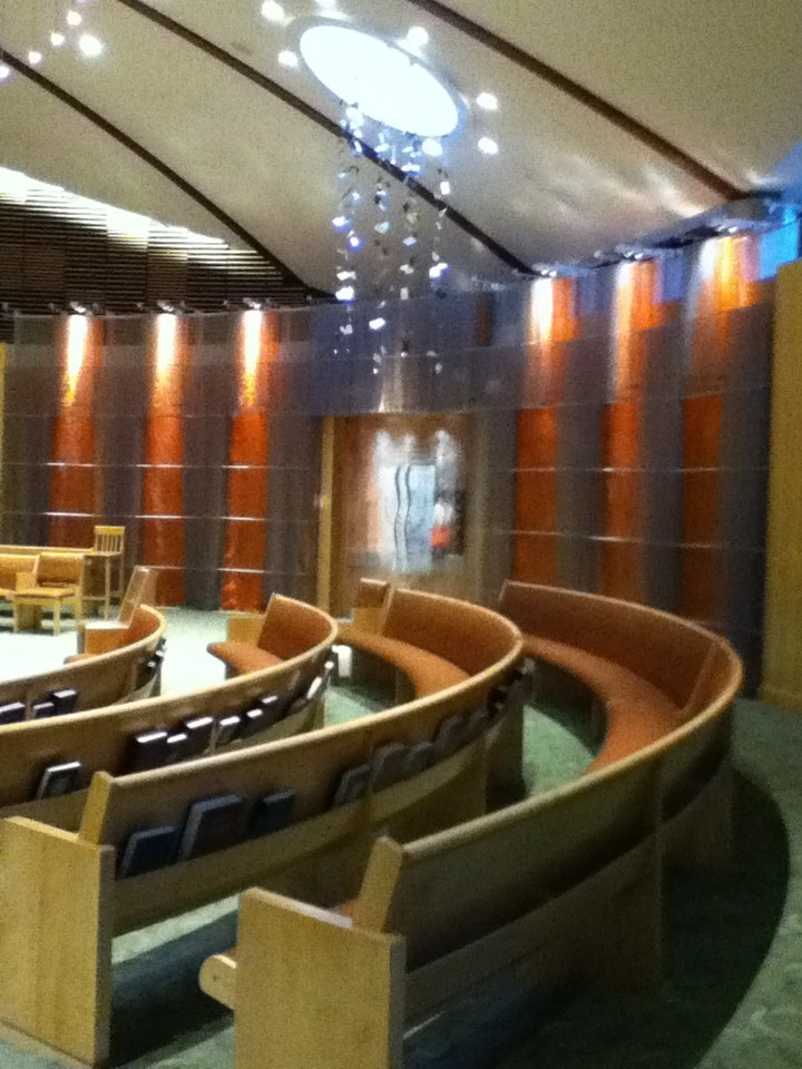 The sanctuary of Kol Shofar in Tiburon, California.